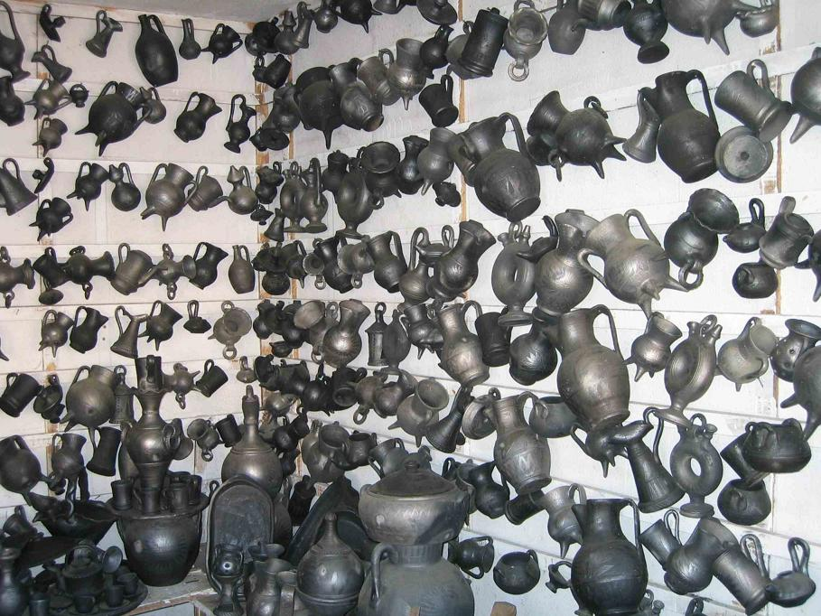 Pottery - Hand made – Bisalhães - Vila Real - Portugal